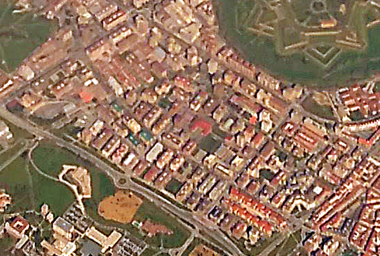 Iturrama, Iruñea-Pamplona, Navarre, Basque Country